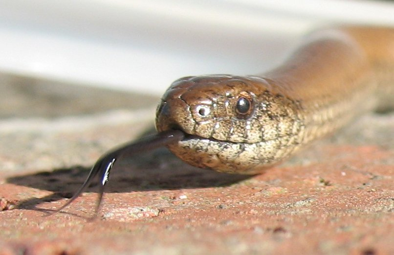 The common slug-eater, Duberria lutrix, found outside Stellenbosch, South Africa.